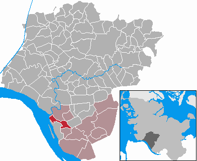 This map shows the area of the municipality Blomesche Wildnis in the Kreis (district) Steinburg, Schleswig-Holstein, Germany.